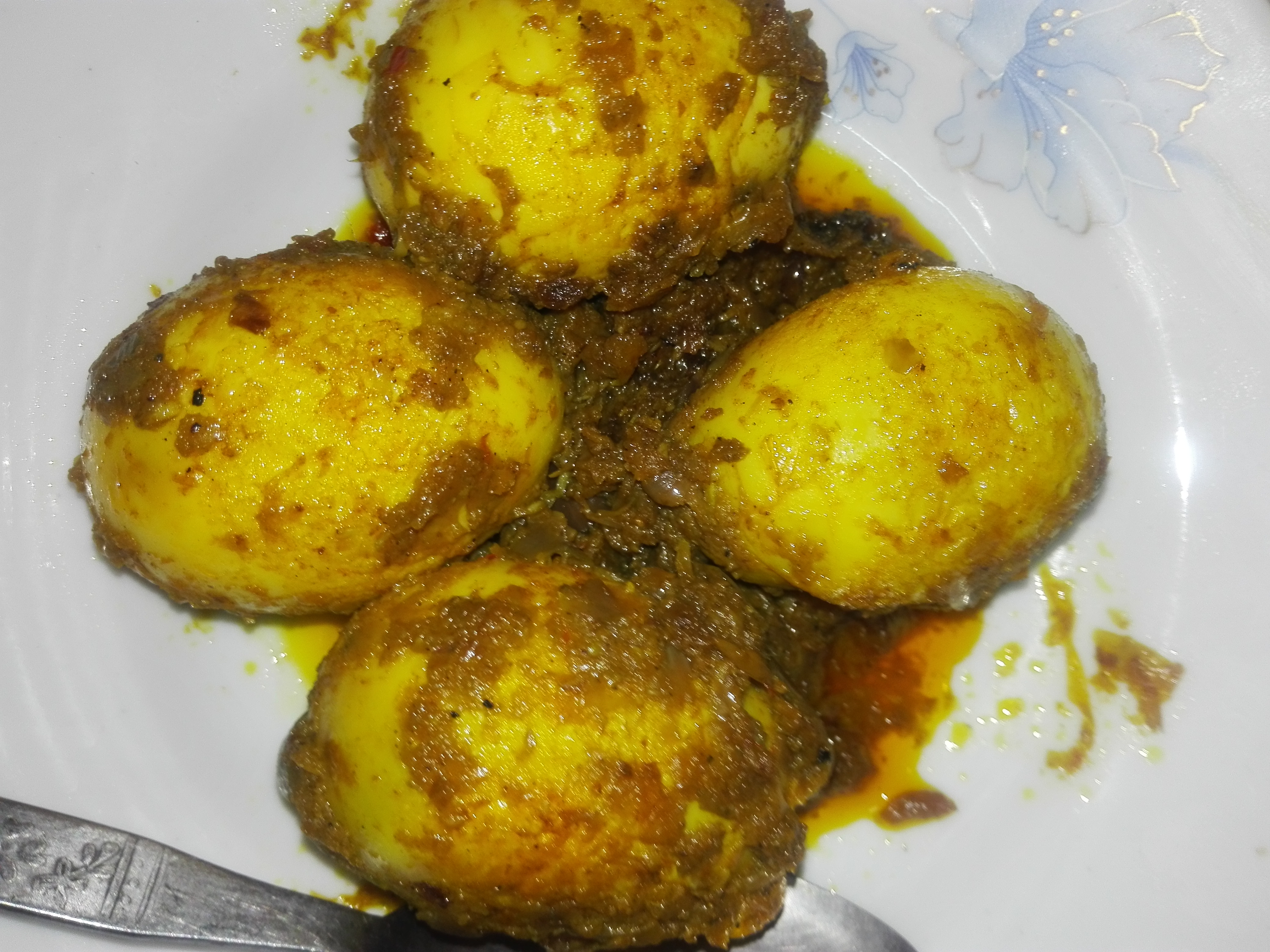 Bangladeshi style duck egg curry